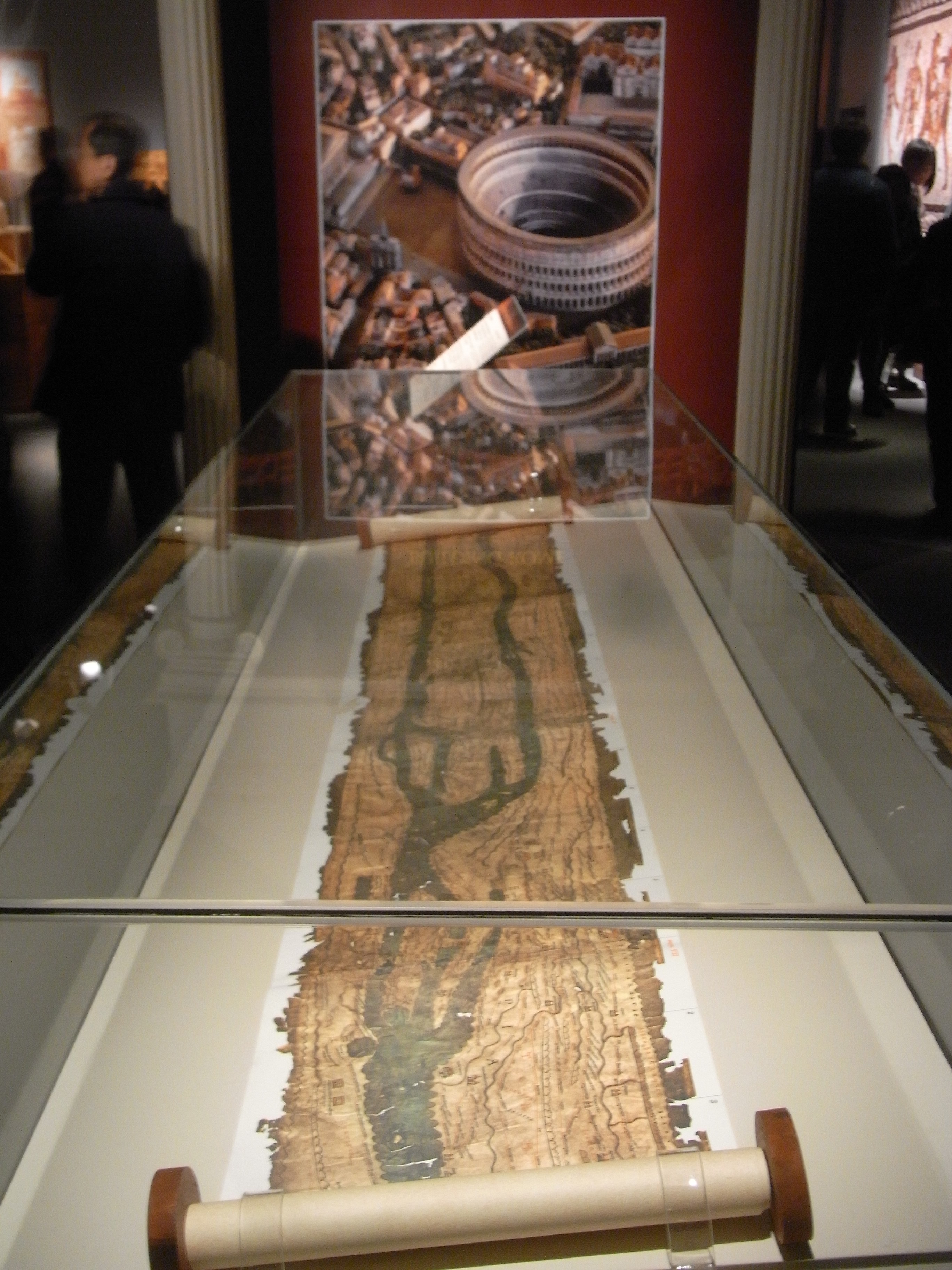 軍事天才 凱撒大帝 Julius Caesar – Military Genius and Mighty Machines